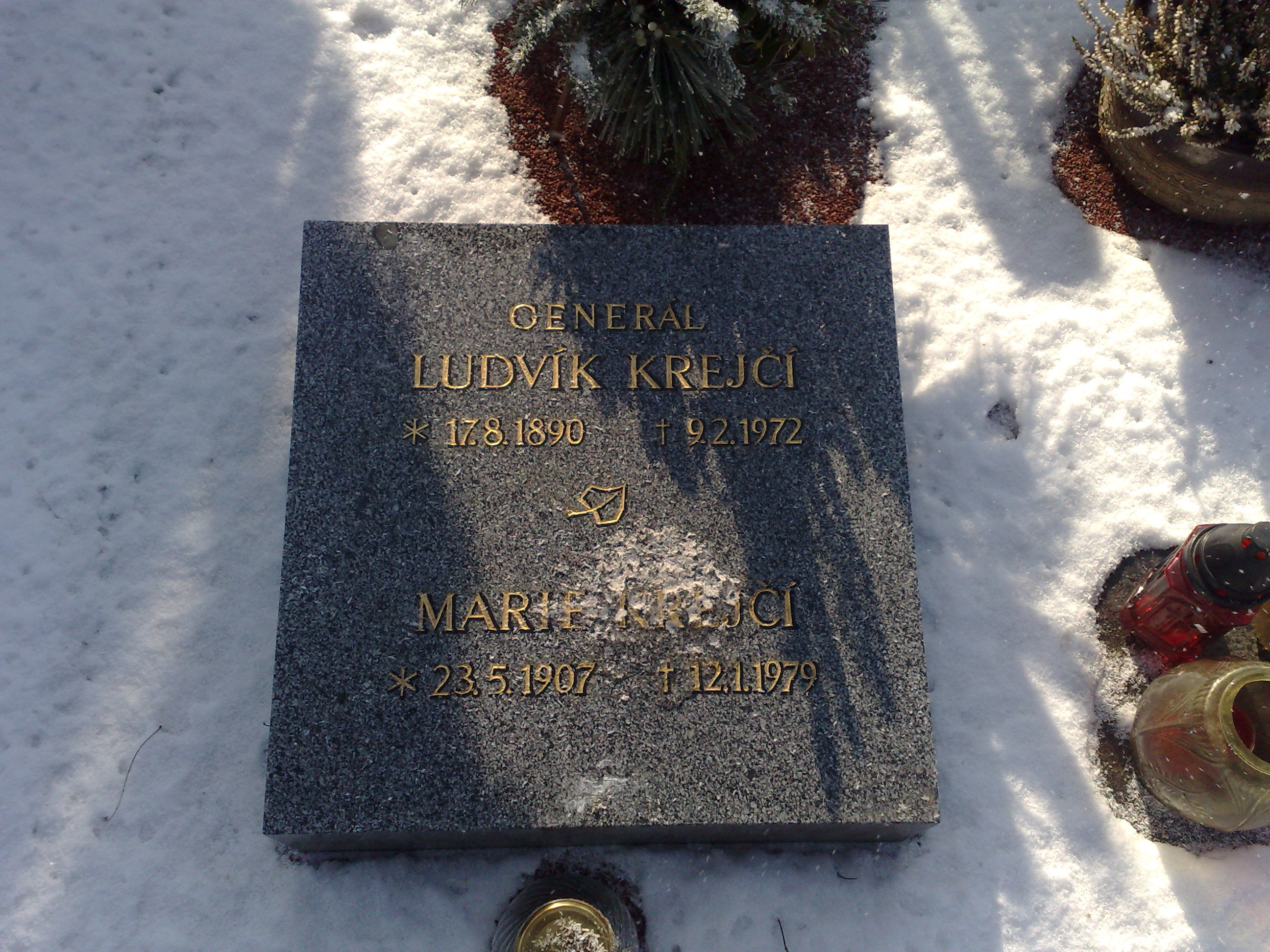 grave of general Ludvik Krejci, cemetery Brno-Turany, CZ